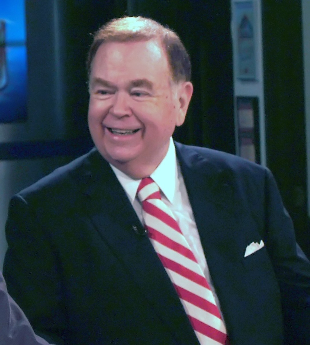 Photograph of David L. Boren, May 2008